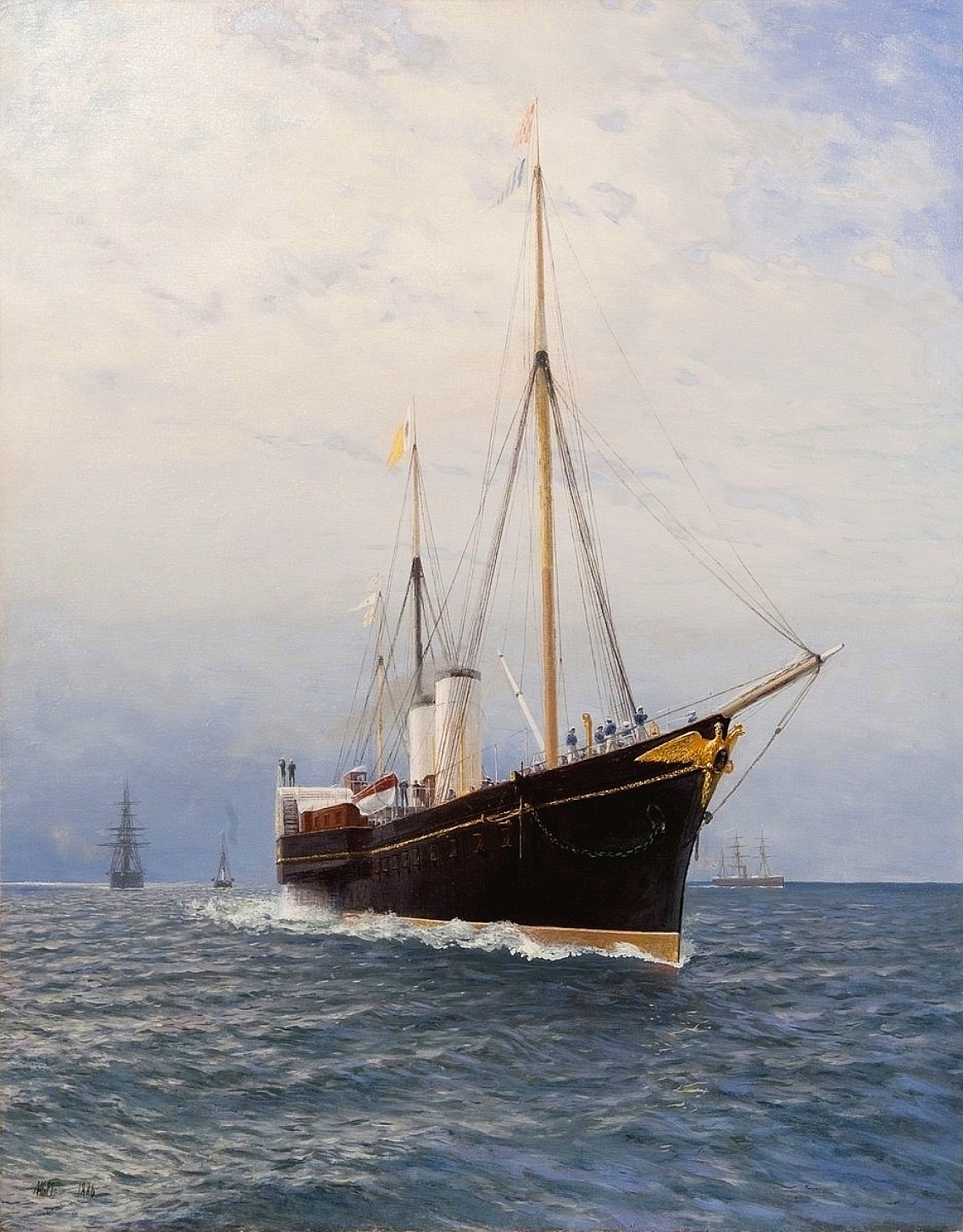 The imperial yacht «Derzhava». 1886. Oil on canvas. 63.8 x 51.4 cm. Private collection. Сomment. The imperial yacht «Derzhava» was the last wooden paddle yacht of the Baltic Fleet; it had the technical equipment and excellent interior decoration advanced of its time, performed by the Court architect Ippolit Monighetti. It was launched in 1871.